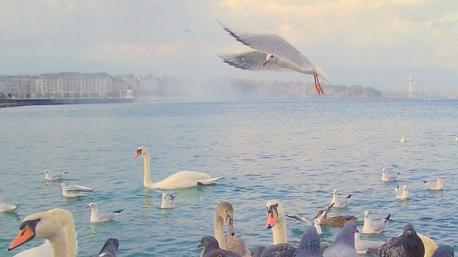 The Lake Geneva of Geneva, Switzerland -- This file is a derivative of the file File:Le rendez-vous des volatiles au port de Genève.jpg that exists on Commons, downloaded by its creator, User:Andykappa.